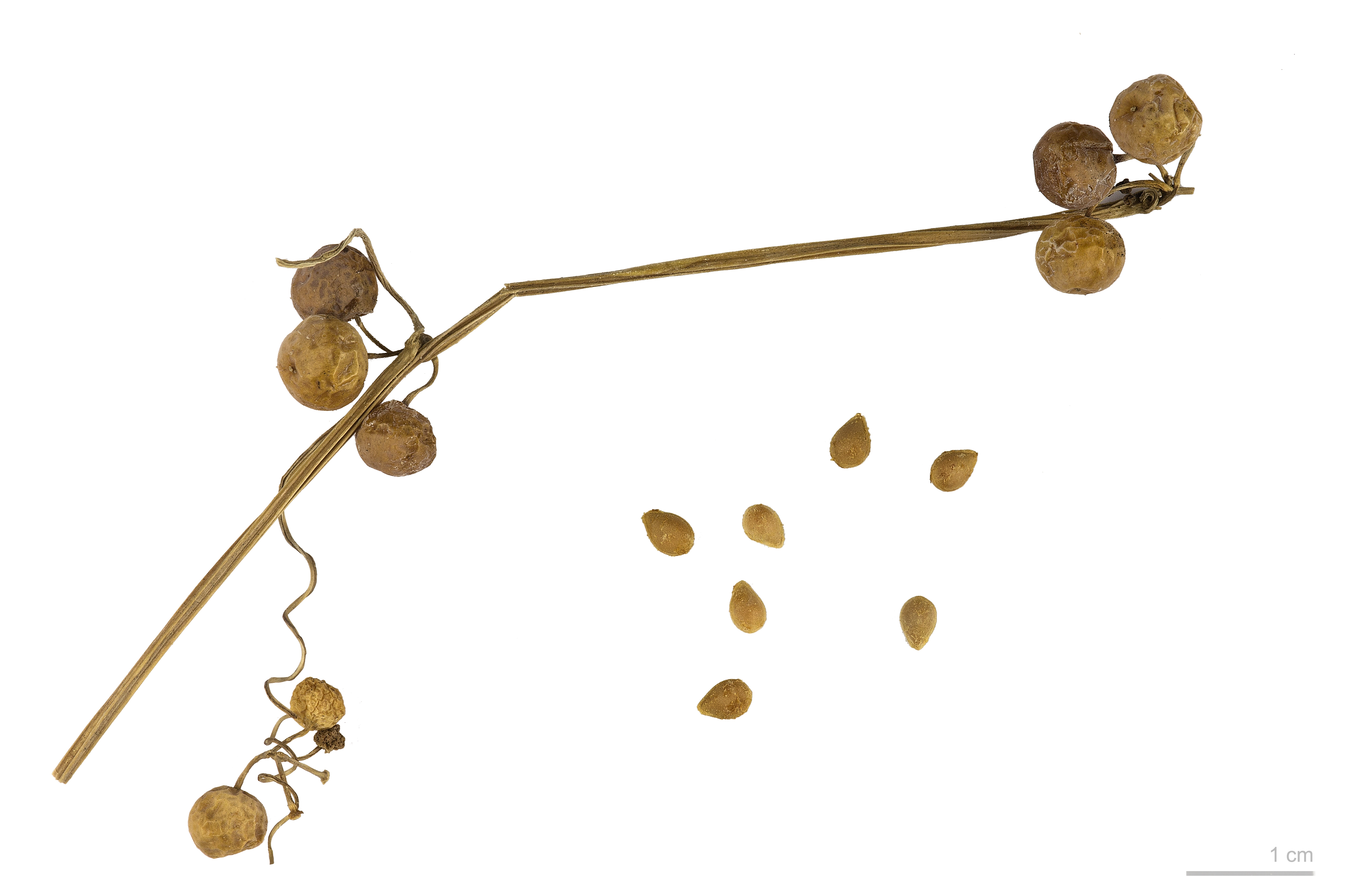 red bryony , fruits and seeds